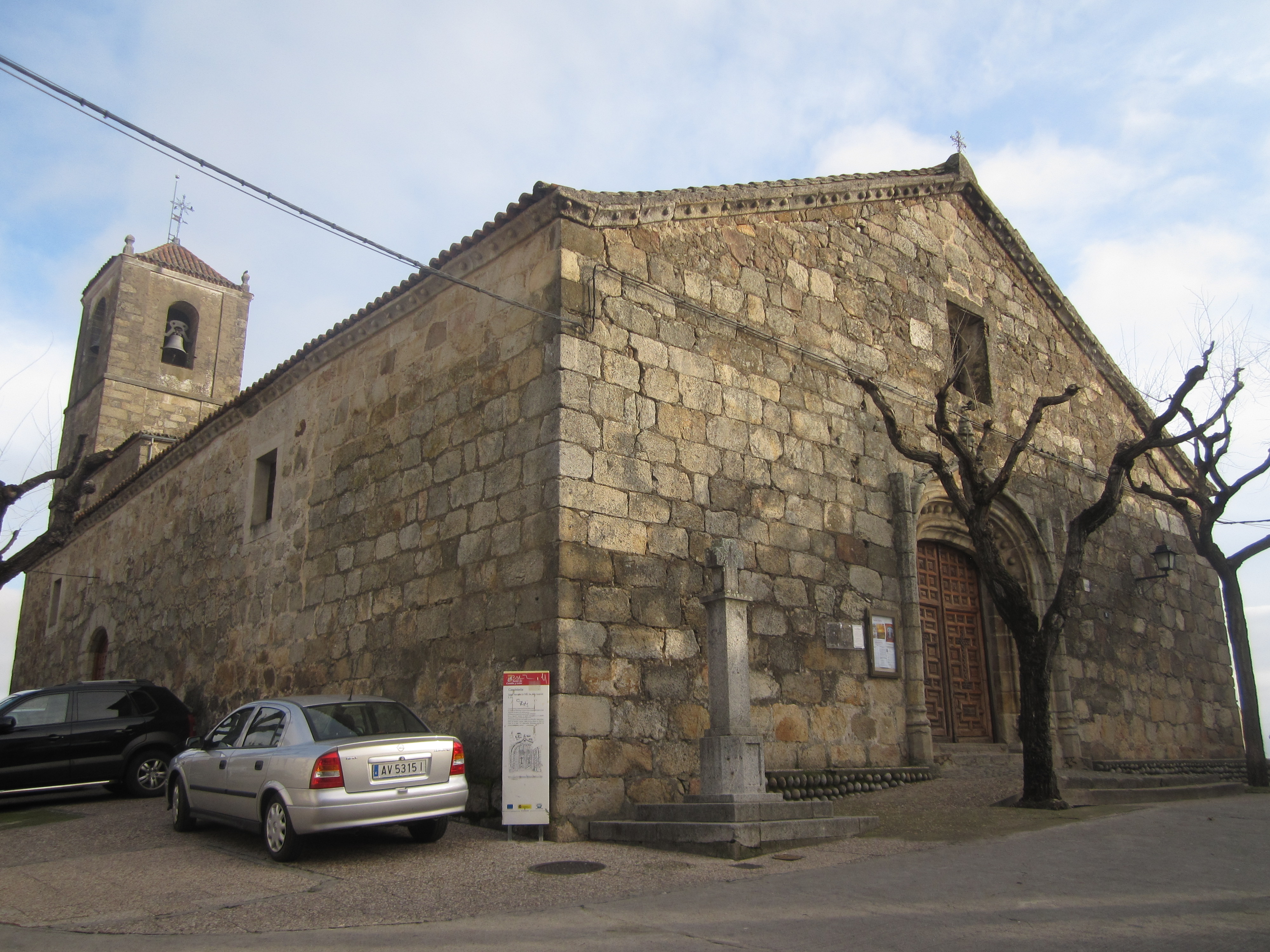 Church of Our Lady of the Assumption in Candeleda (Ávila), Spain.